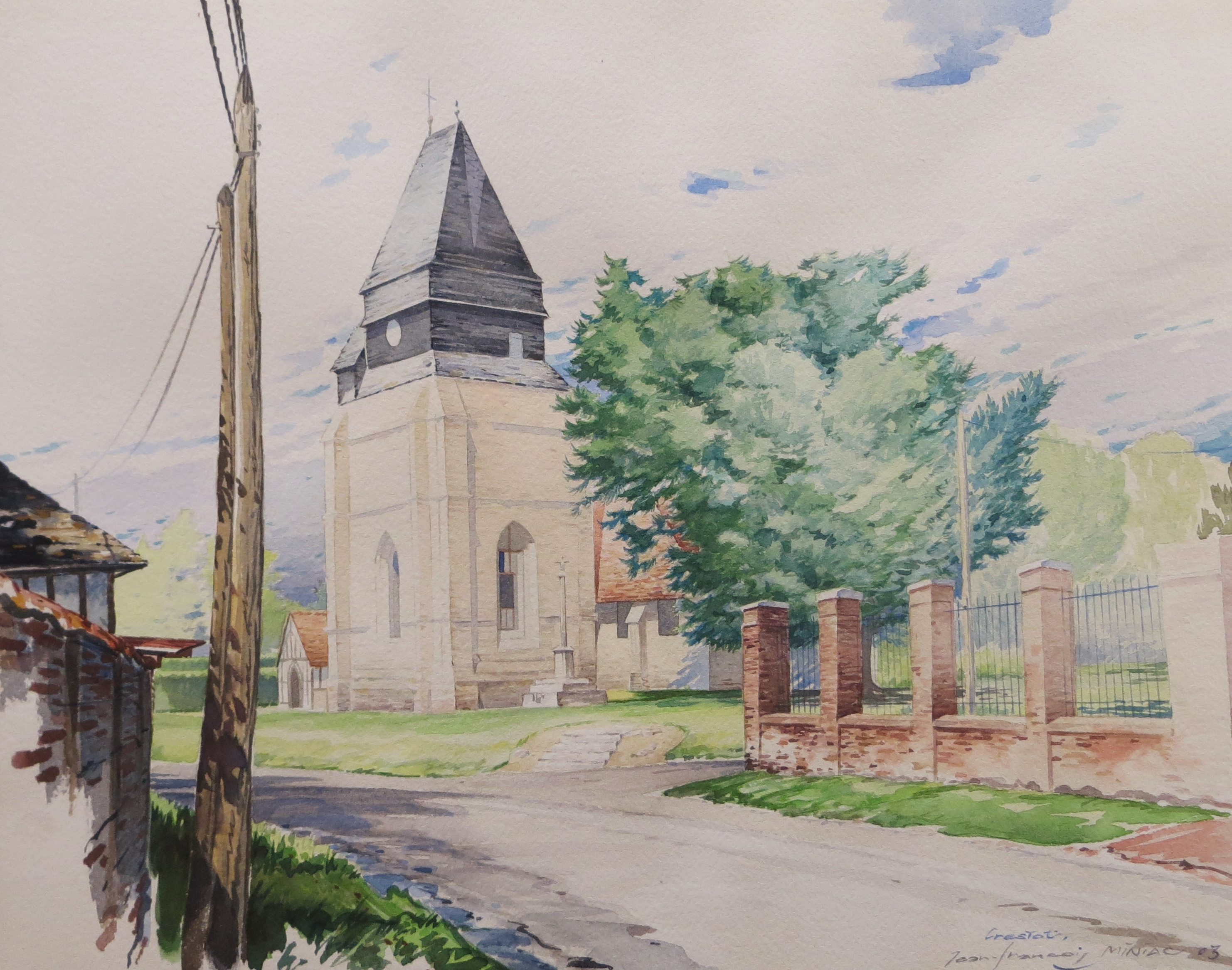 View from Crestot, little city of Eure, near Le Neubourg, Normandy, France. Watercolor by Jean-François Miniac, 2003.